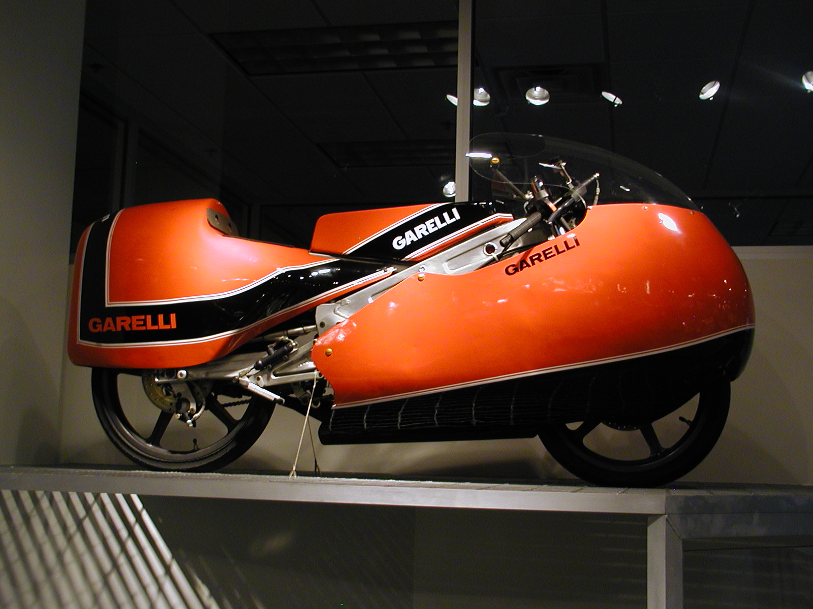 Barber Motorcycle Museum - Oct 22 2006 (167) 1968 Garelli Racer / More description is here